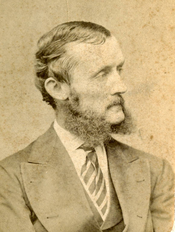 William D. Washington, artist and Virginia Military Institute faculty member. He is best known for his painting "Burial of Latane." William D. Washington was hired by Virginia Military Institute in 1869 to serve as Professor of Fine Arts and to paint portraits of notable VMI alumni who were killed in the Civil War. He died suddenly in 1870, before completing this project.